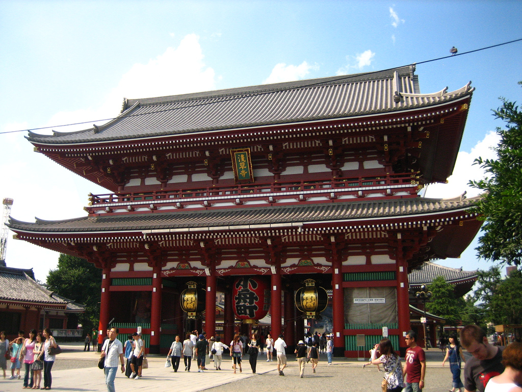 Hōzōmon Gate at the Sensō-ji in Asakusa